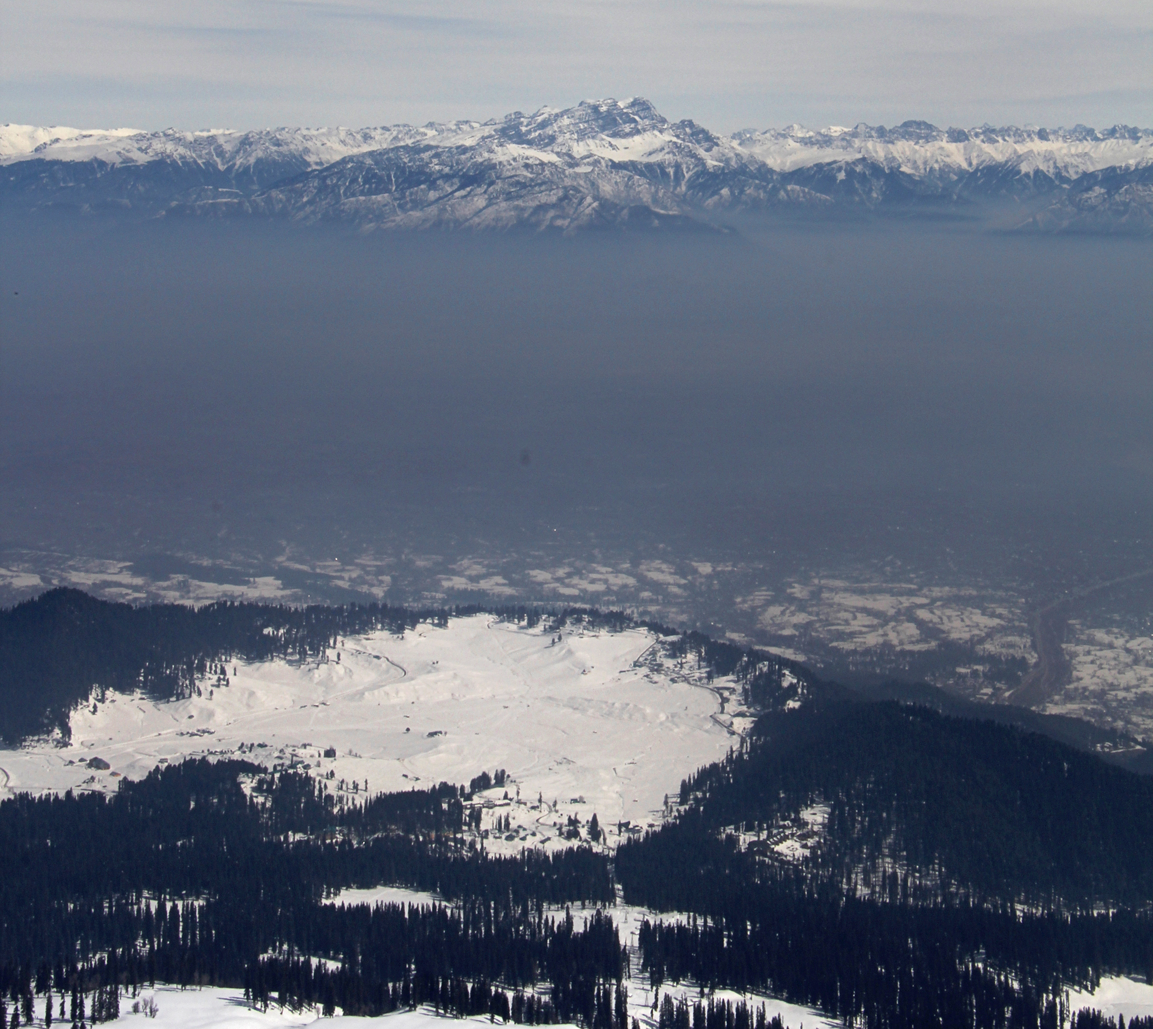 A view of Gulmarg from the top of the Gulmarg Gondola with a view across the vale of Kashmir to Harmukh